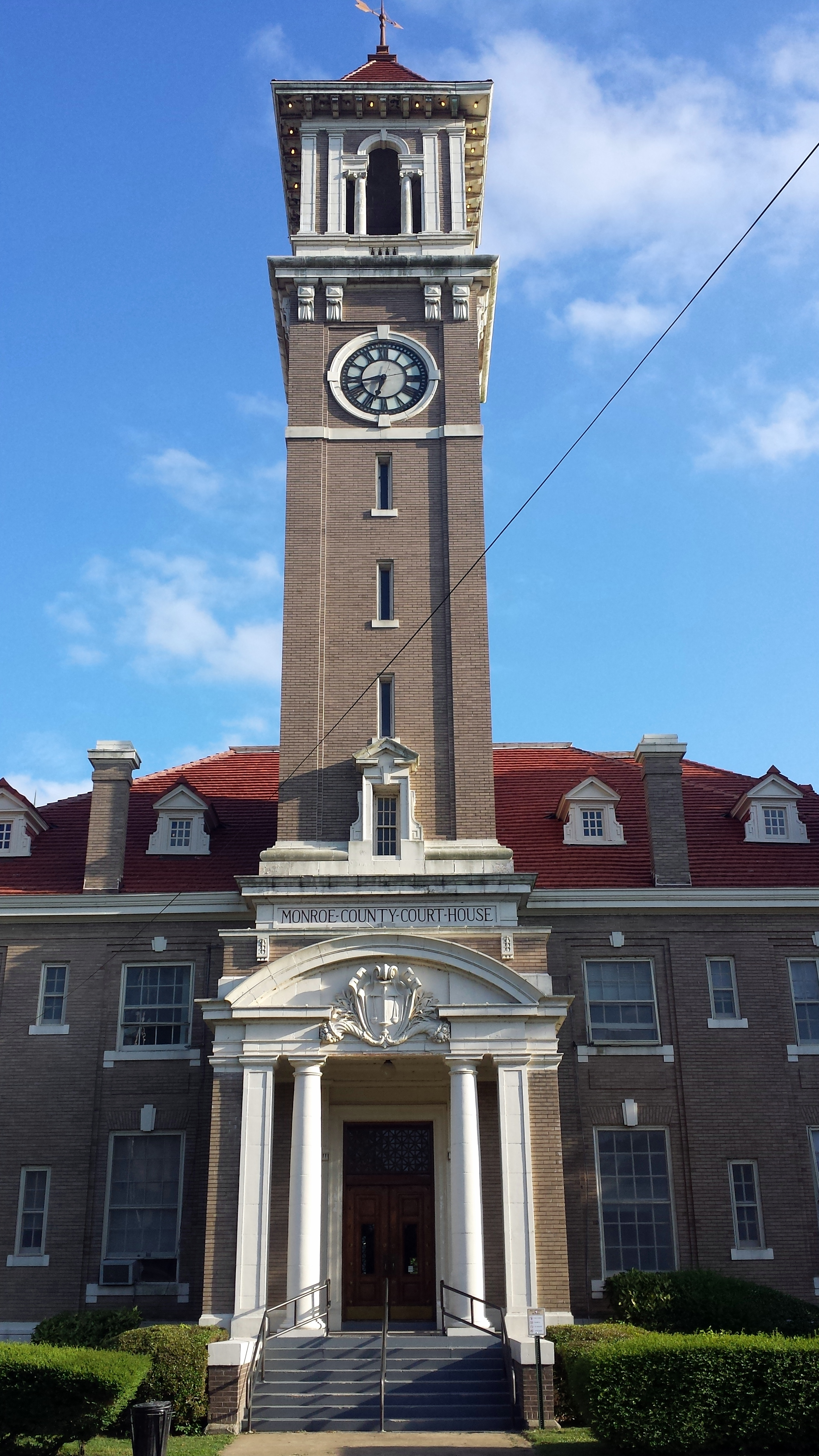 Front view